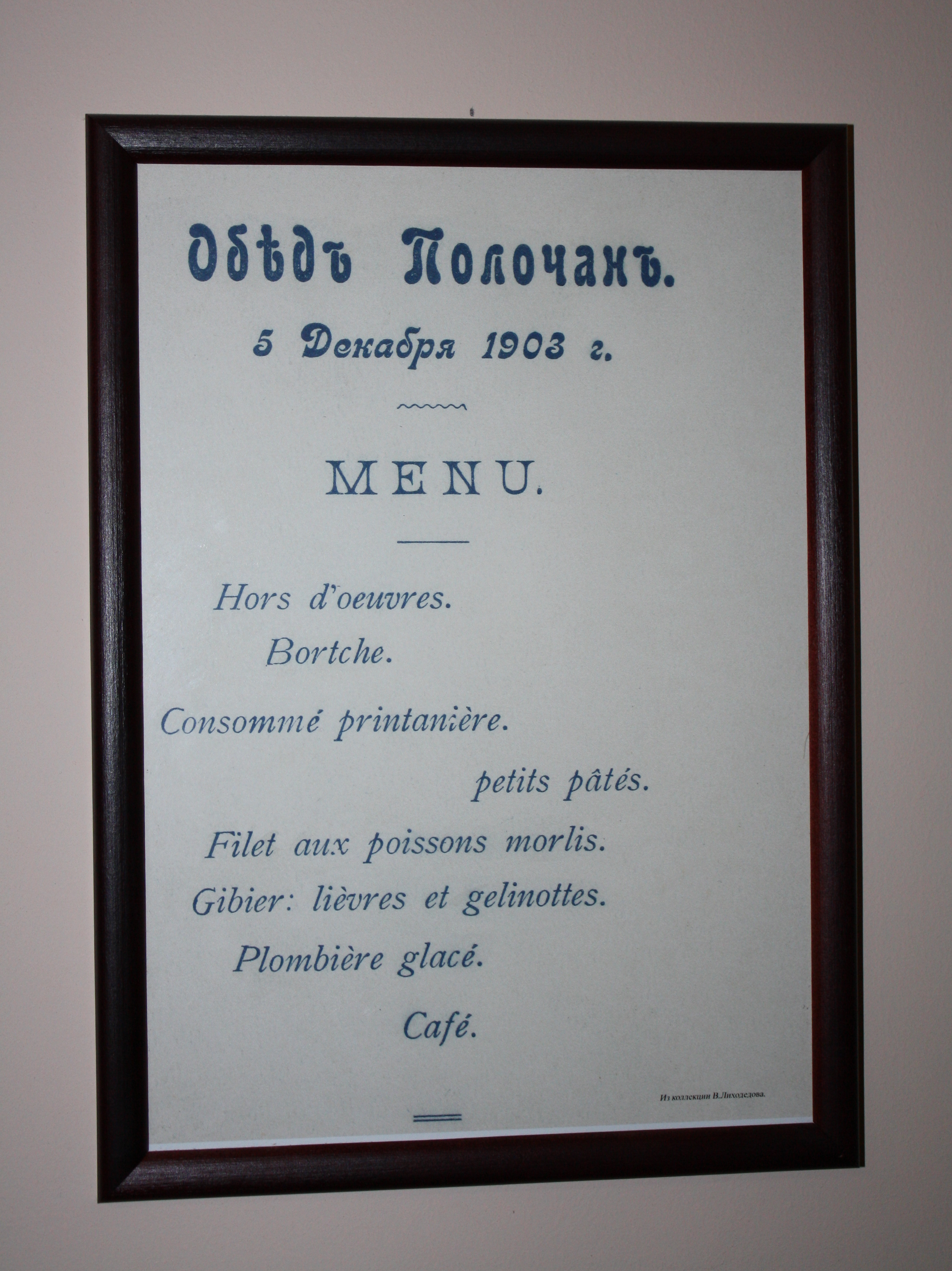 Menu of students of cadet corps in Polatsk (todays Belarus) at 1903. Беларуская (тарашкевіца): Мэню студэнтаў Полацкага кадэцкага корпусу ў 1903 г.